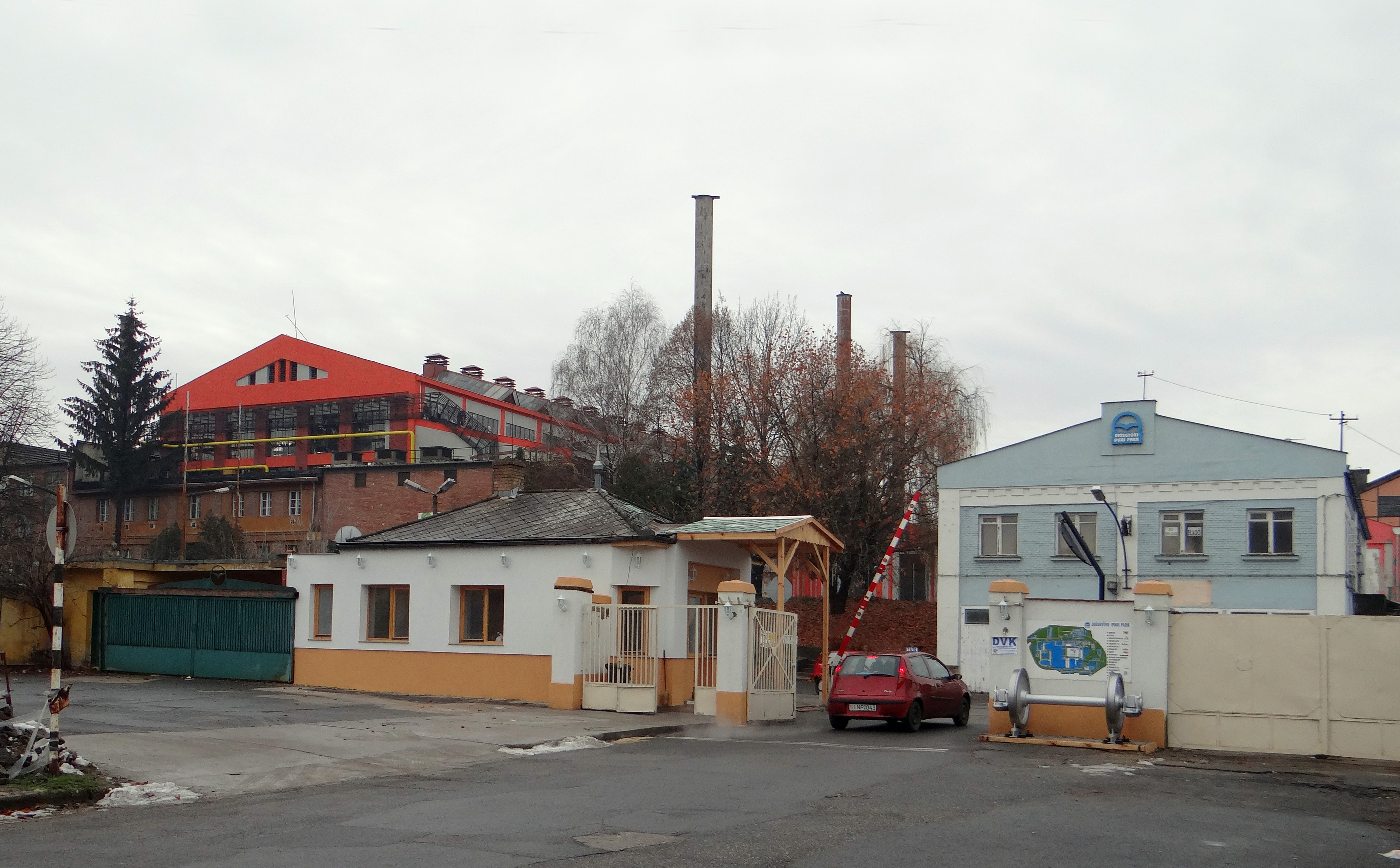 Main entrance of Diósgyőr Machine Works (DIGÉP). Miskolc, Hungary.